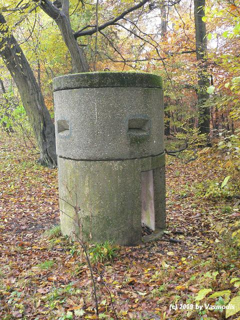 German 1 Man Bunker. Part of Schirach Bunker in Ottakring, Vienna